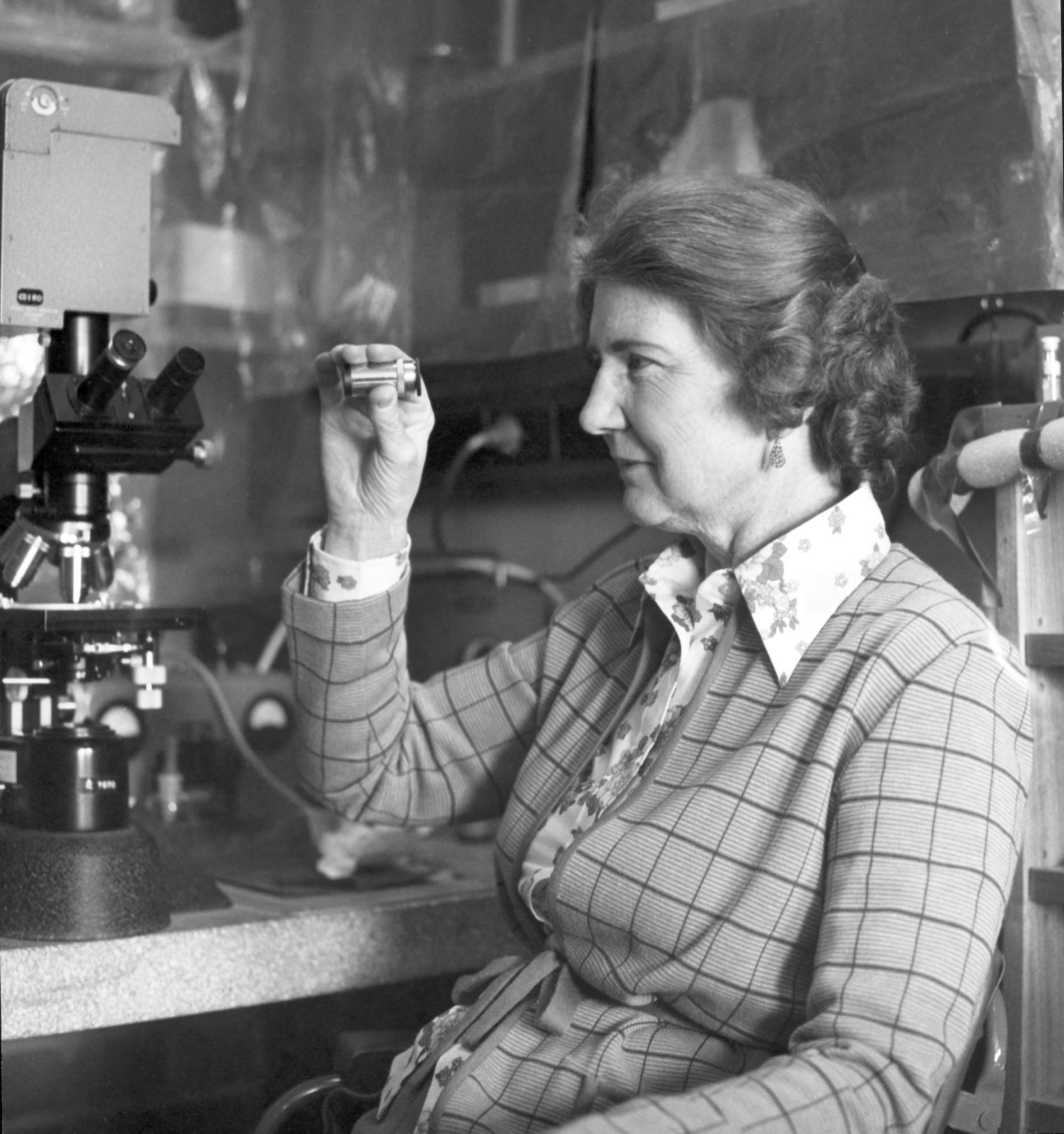 From the archive description: "Rachel Makinson was the first woman at CSIRO to become a chief research scientist (in the Division of Textile Physics) and also, at the time, the first to hold the position of Acting Chief. Makinson was an authority on wool felting friction and shrink proofing."